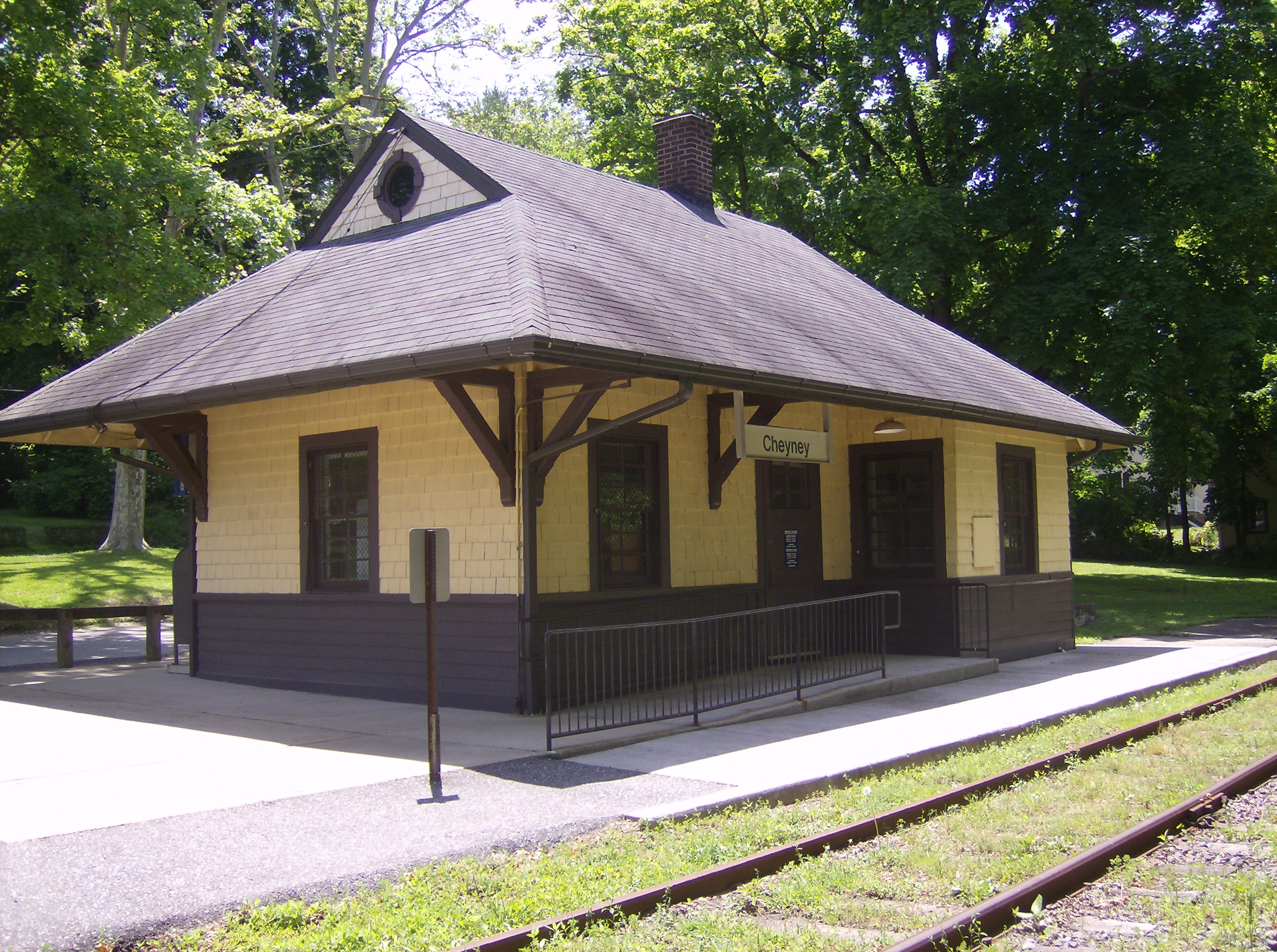 Cheney train station (now a post office)